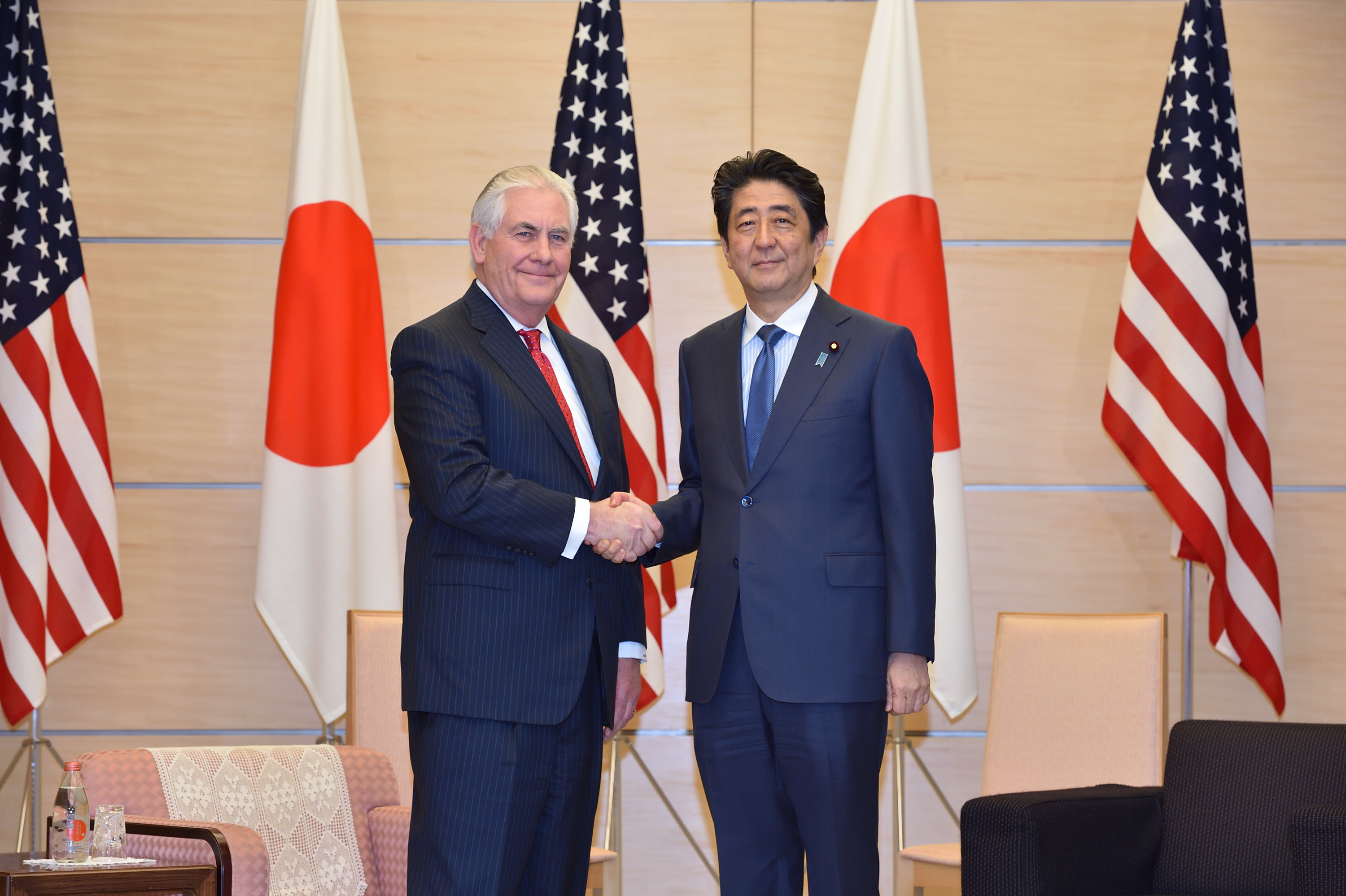 U.S. Secretary of State Rex Tillerson shakes hands with Japanese Prime Minister Shinzo Abe before their bilateral meeting in Tokyo, Japan, on March 16, 2017. [U.S. Embassy Tokyo photo/Public Domain]